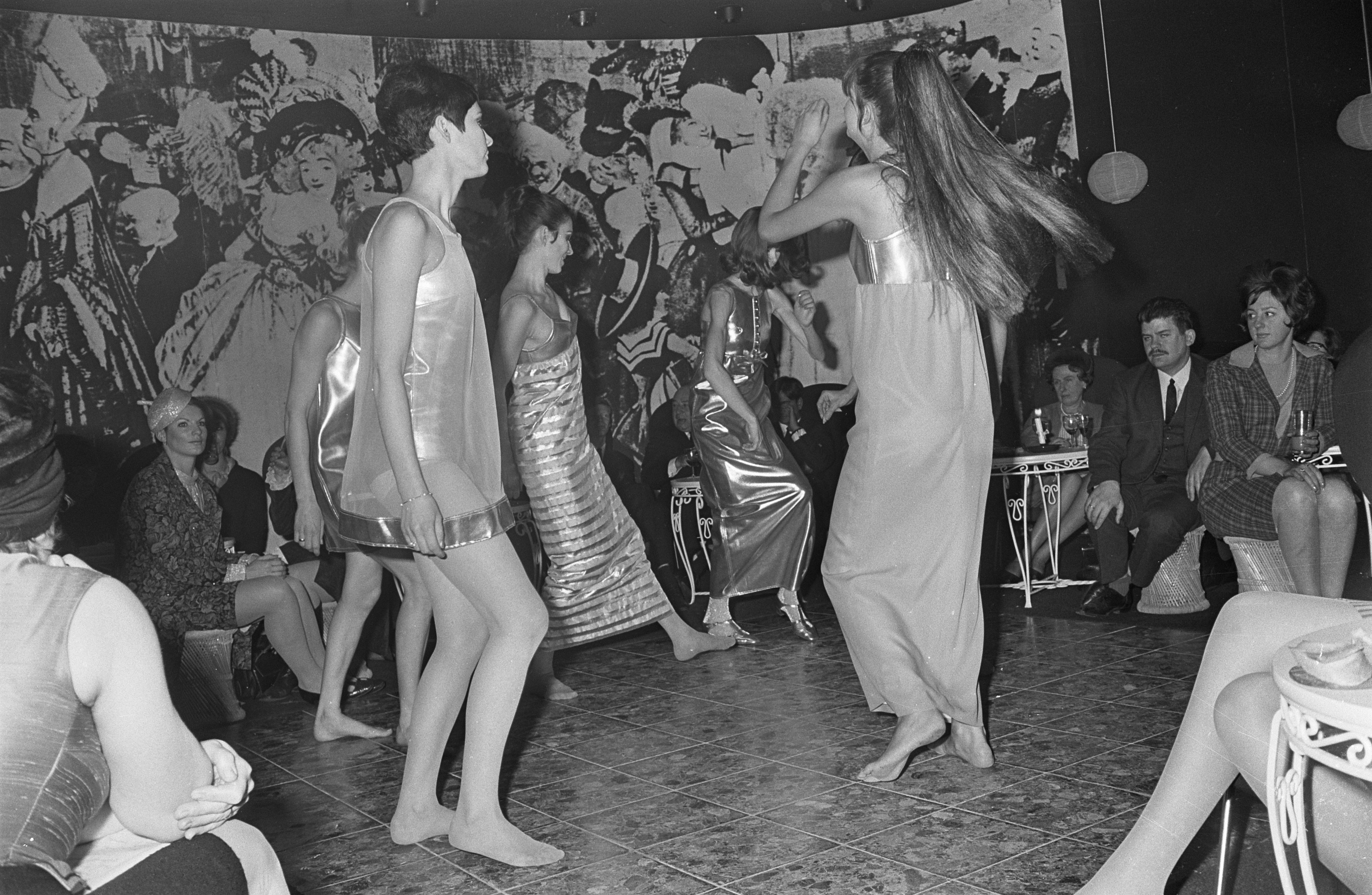 n Bistrotheque te Amsterdam wordt de collectie getoond van de Engelse mode-ontwerper John Bates, op beatmuziek showen de mannequins